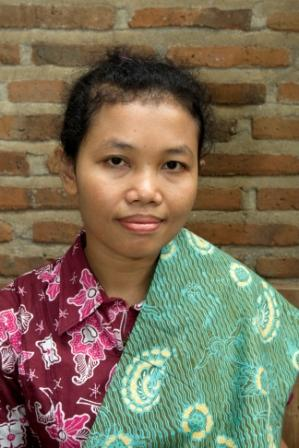 Sukini, at a batik workshop near Yogyakarta. An Australian-funded program helped train Sukini and other women in her village to improve their batik processing. Australia’s support helped more than 150,000 people rebuild their lives following a devastating earthquake in Yogyakarta in 2006. Photo: Ahmad Salman/ AusAID